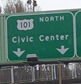 Giway 101